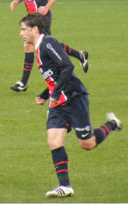 Maxwell, PSG player